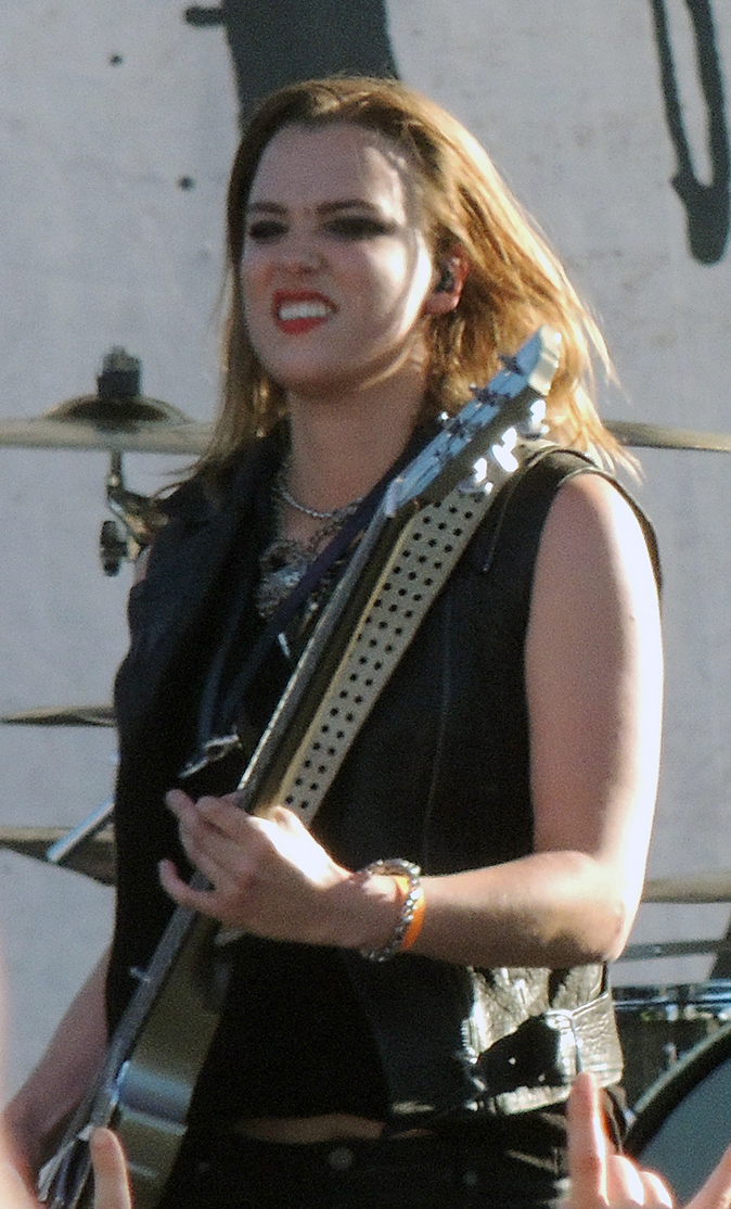 Lzzy Hale performing with Halestorm in 2014